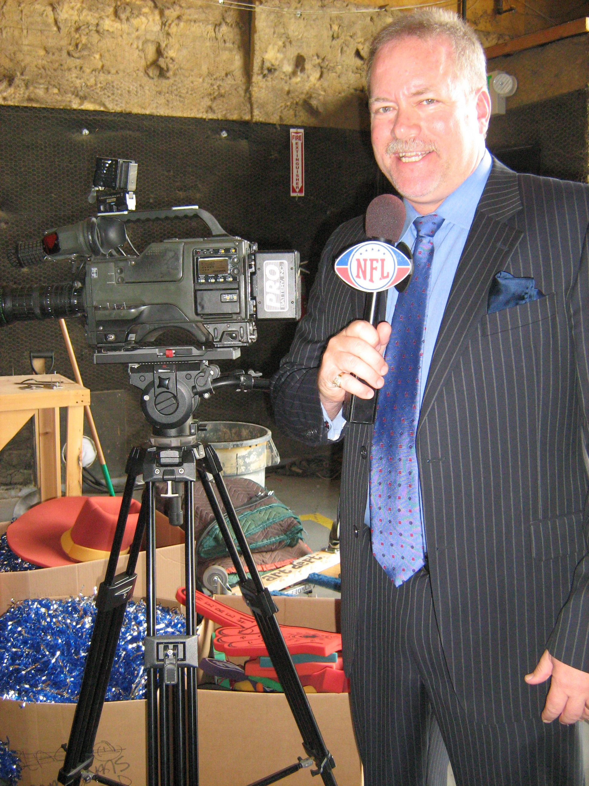 Carlucci Sportscaster